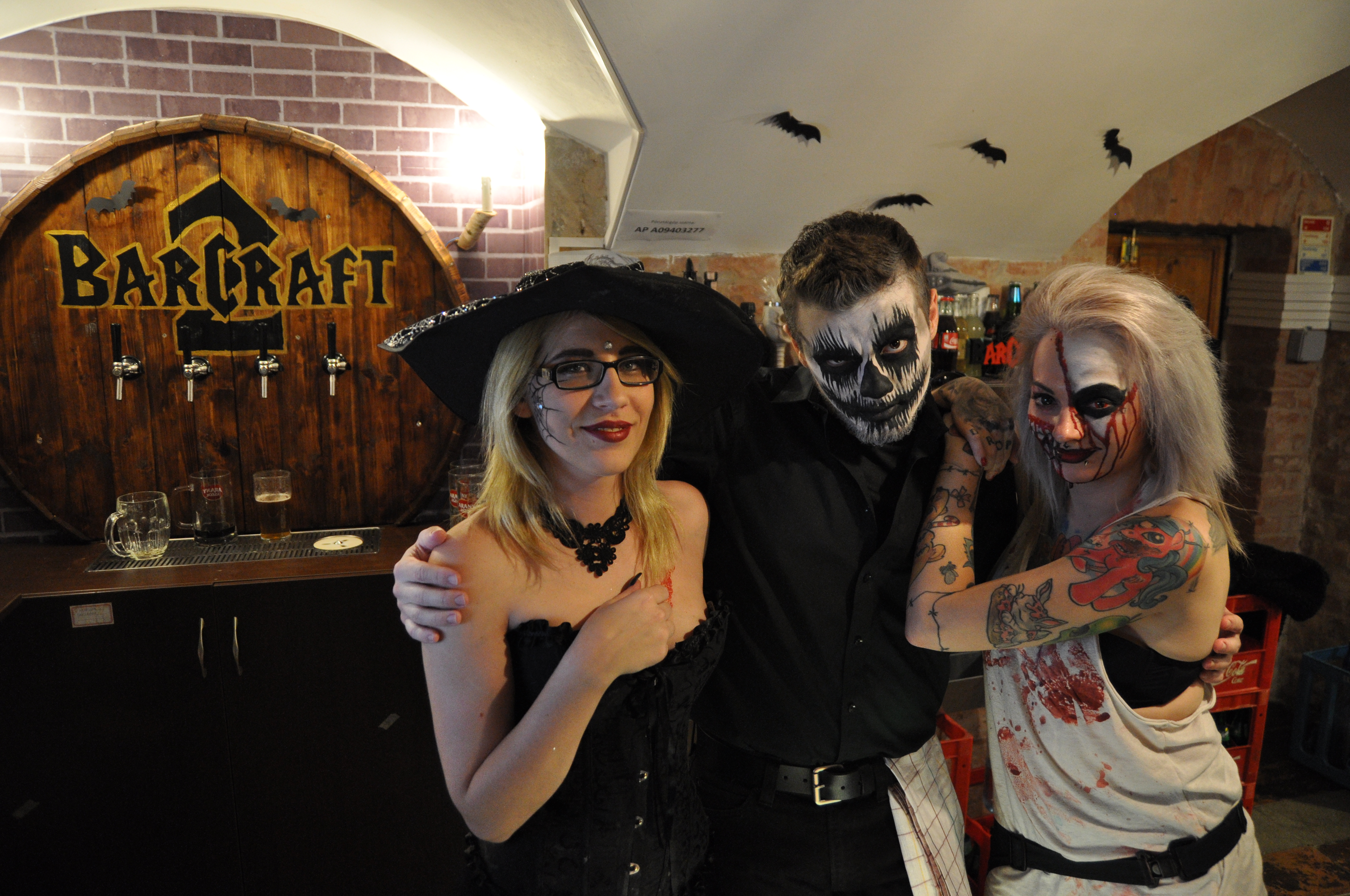 Budapest, BarCraft 2, Halloween